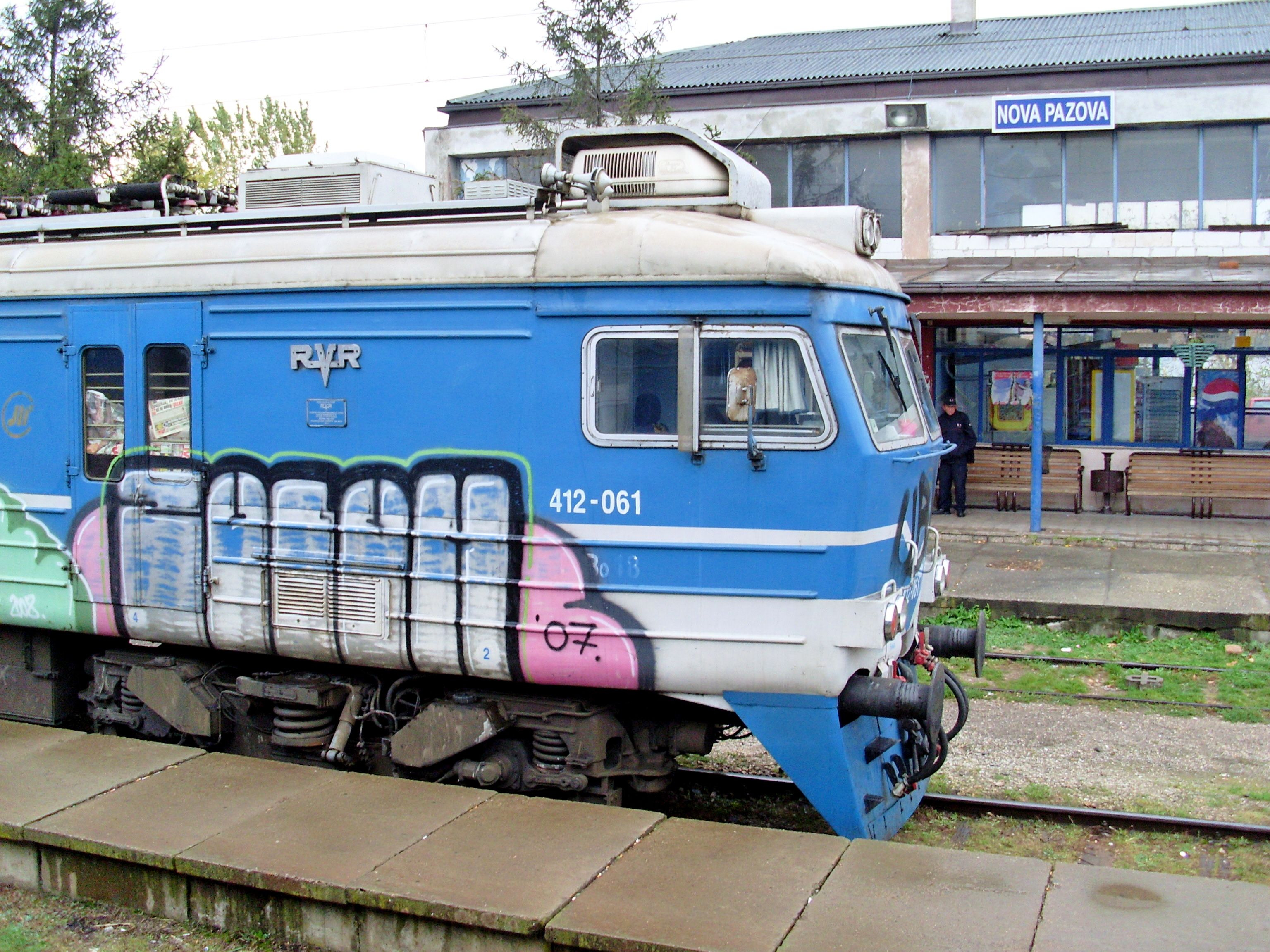 Beovoz train at Nova Pazova rail station